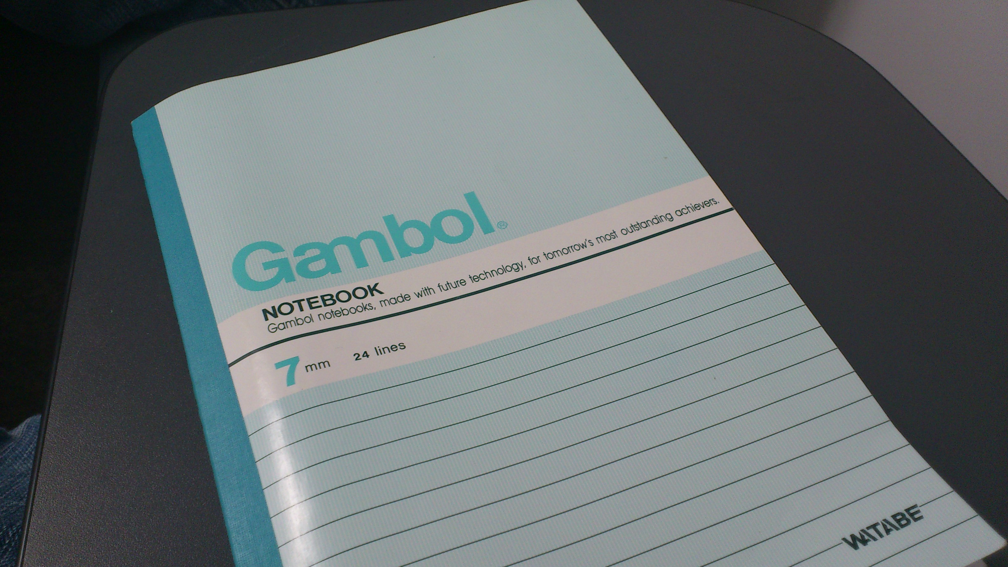 made with future technology, for tomorrow's most outstanding achievers. [1] [2]